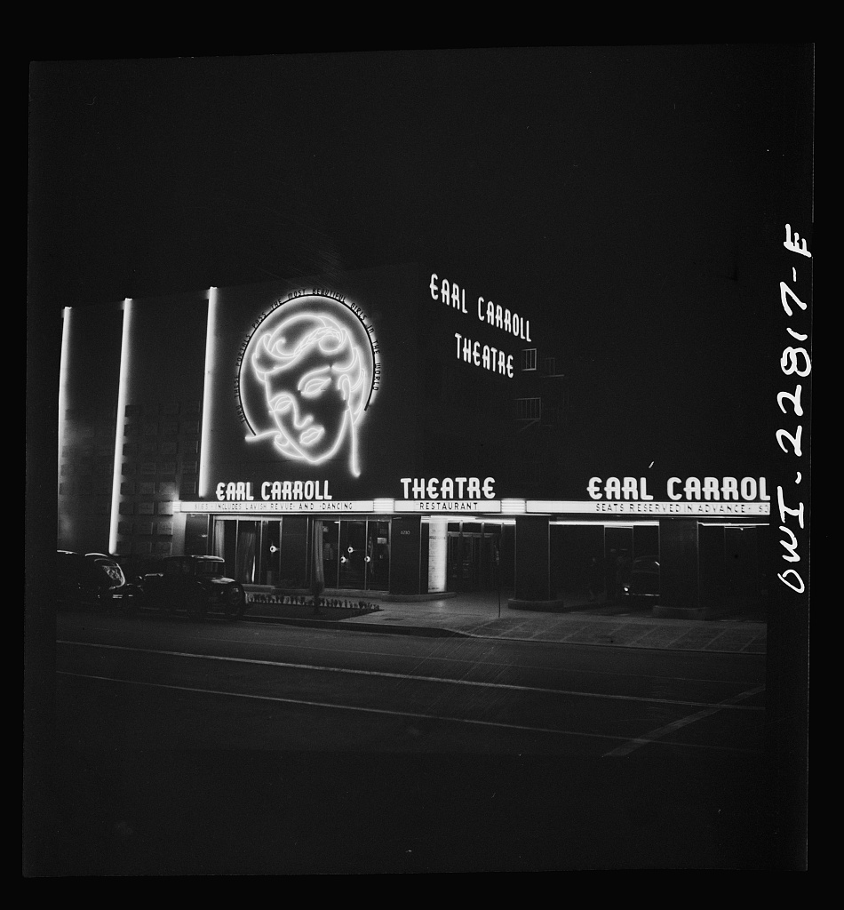 Earl Carroll Theatre, Los Angeles, California, USA